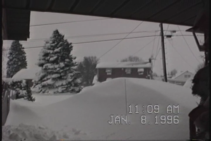 8mm Video Frame grab of a vehicle immediately after the storm. Taken in just north of Reading Pennsylvania - about 50 miles northwest of Philadelphia.